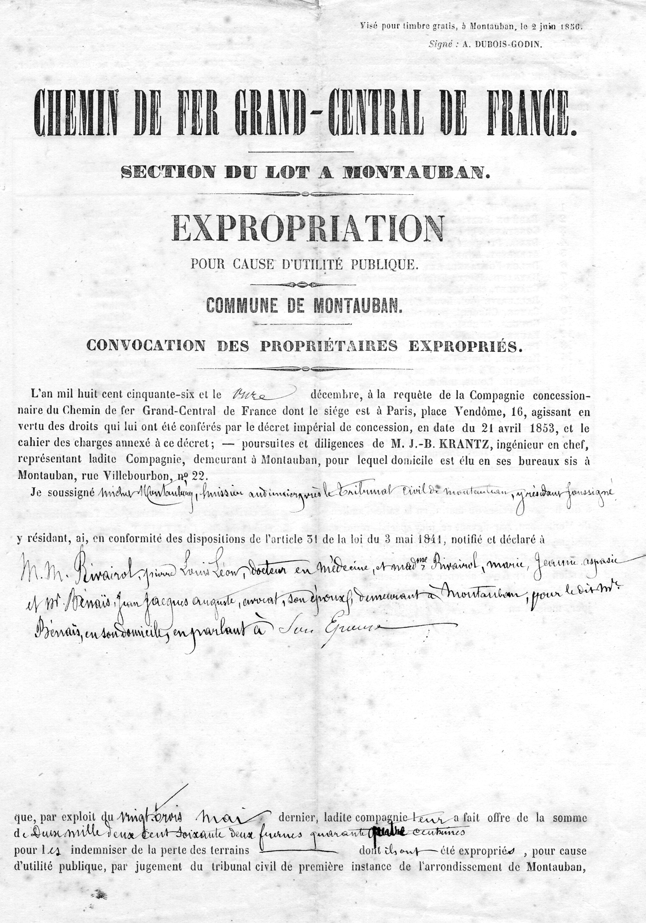 Expropriation notice for construction by the Grand Central Railroad Company of France.